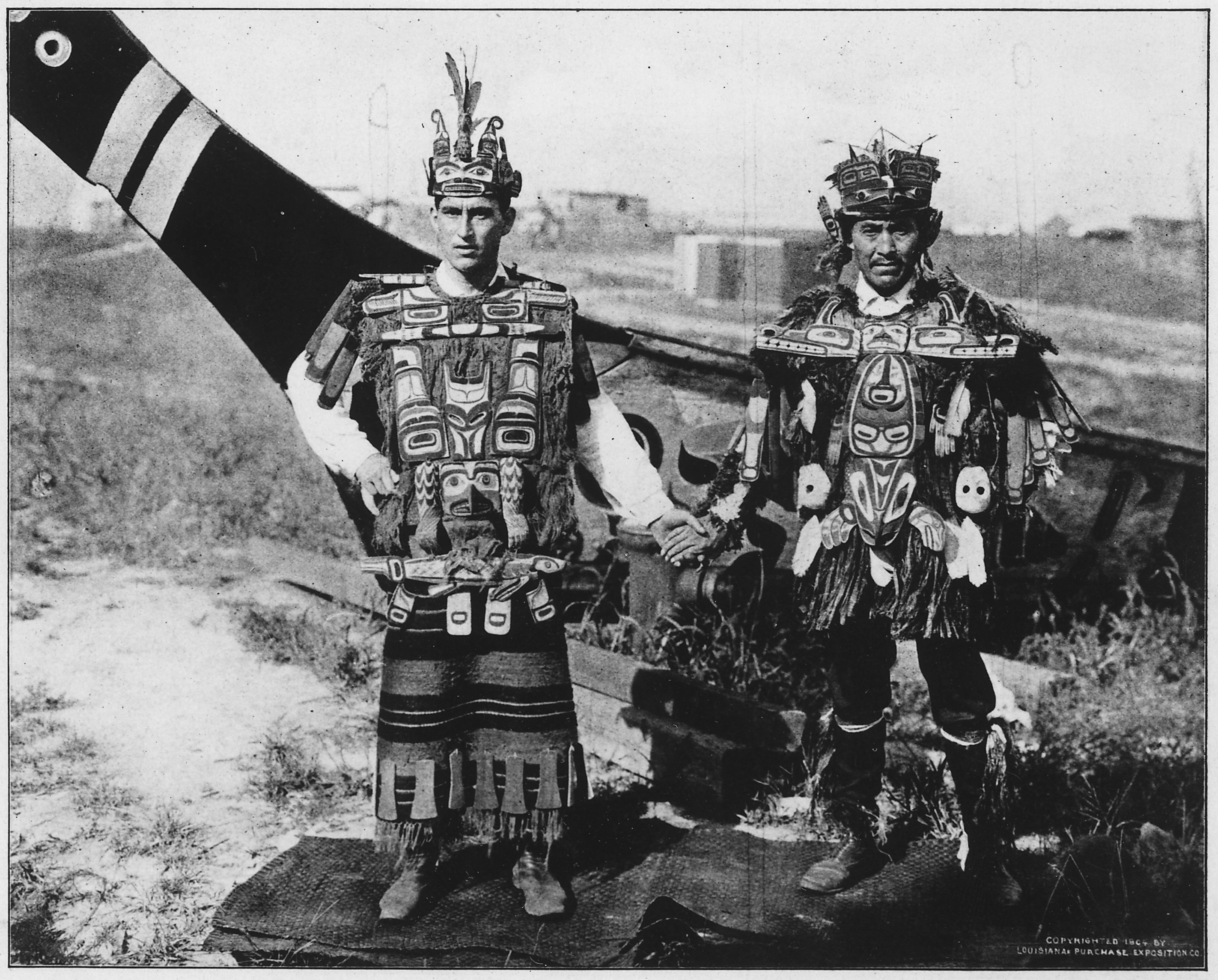 General notes: Two Kwakiutl men in ceremonial coats.